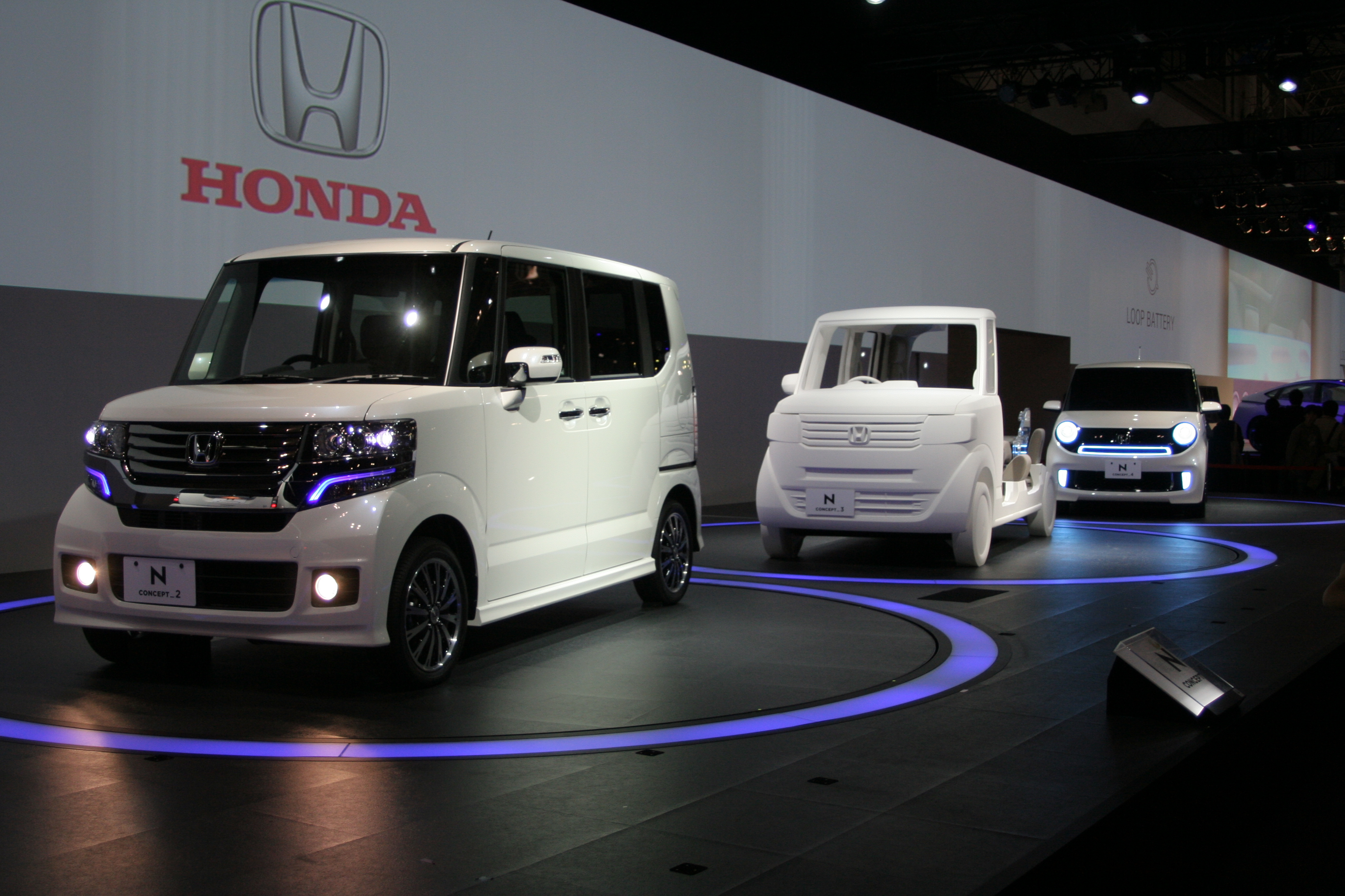 Honda N Concept 2, Concept 3 and Concept 4 in Tokyo Motor Show 2011.